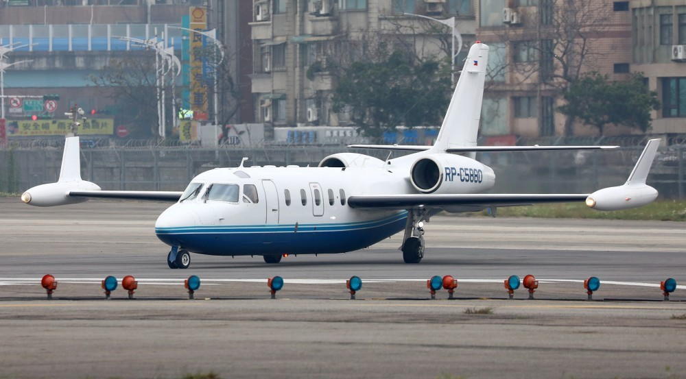 Taken at Taipei-Songshan Airport